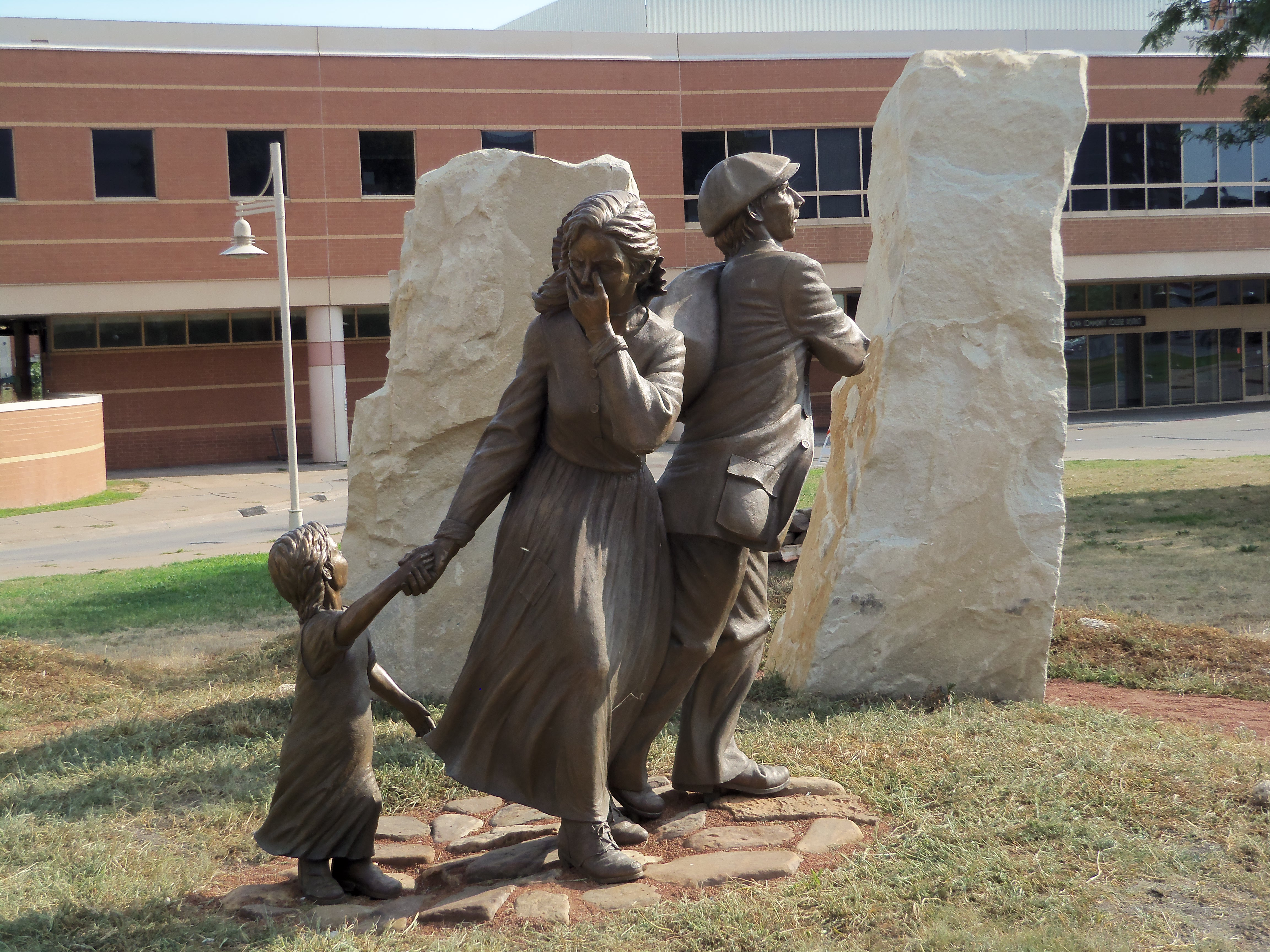 Memorial to Irish immigrants in downtown Davenport, Iowa. Designed by Lou Quaintance it includes two large stones from County Donegal, Ireland. Commissioned by the St. Patrick Society of the Quad Cities.